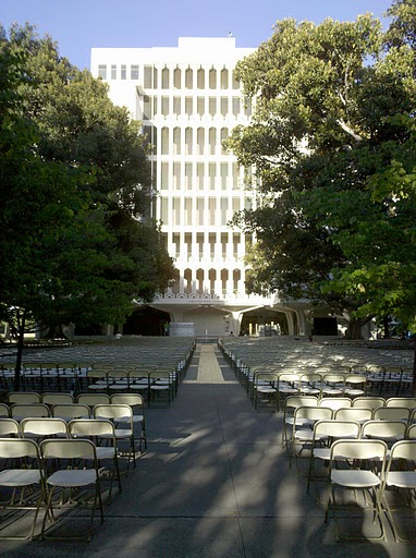 This is a view of the front entrance of the Humanities and Social Sciences building, during the week of commencement ceremonies in May of 2010.